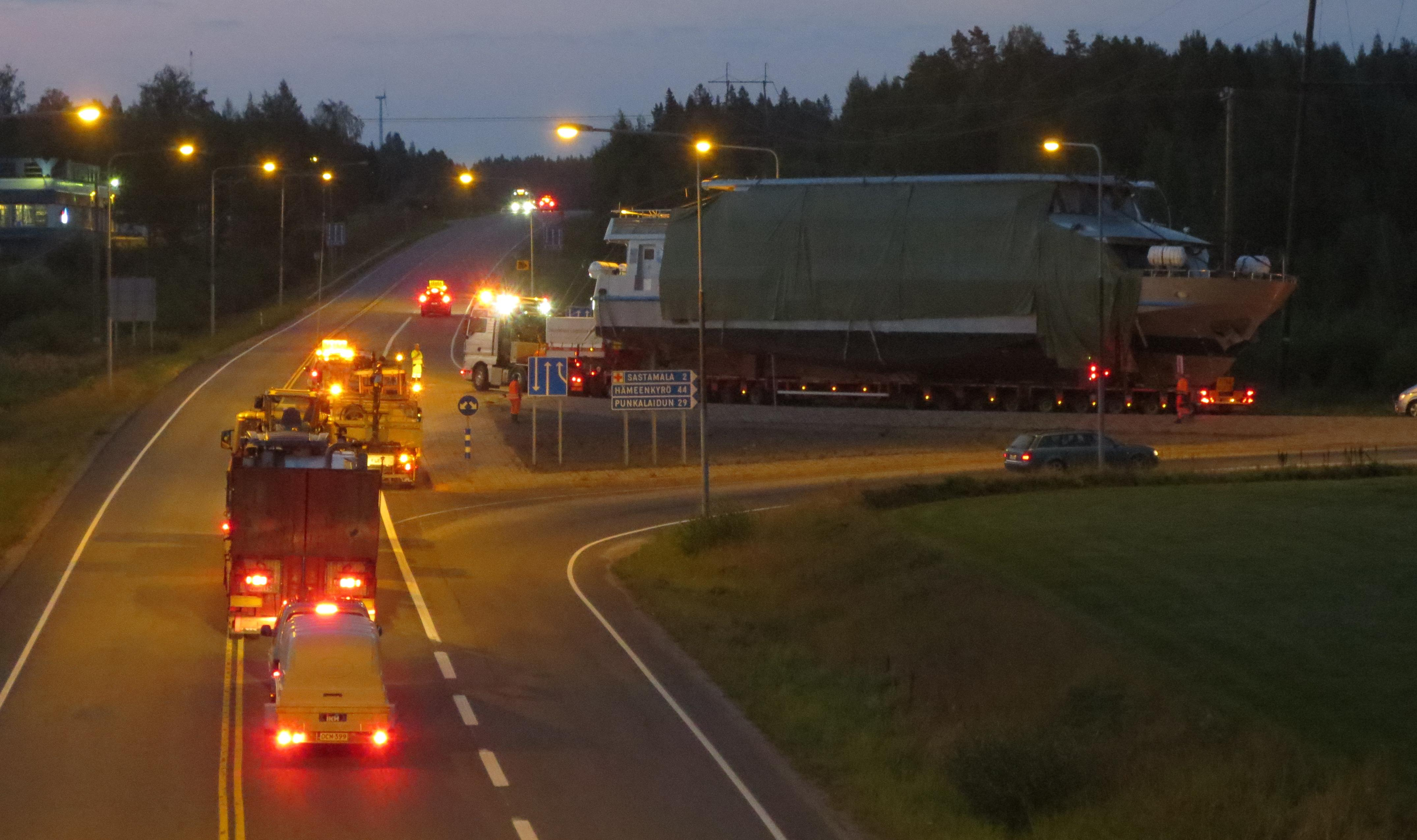 Road transport of M/S Silver Sky 4th August 2014 in Sastamala